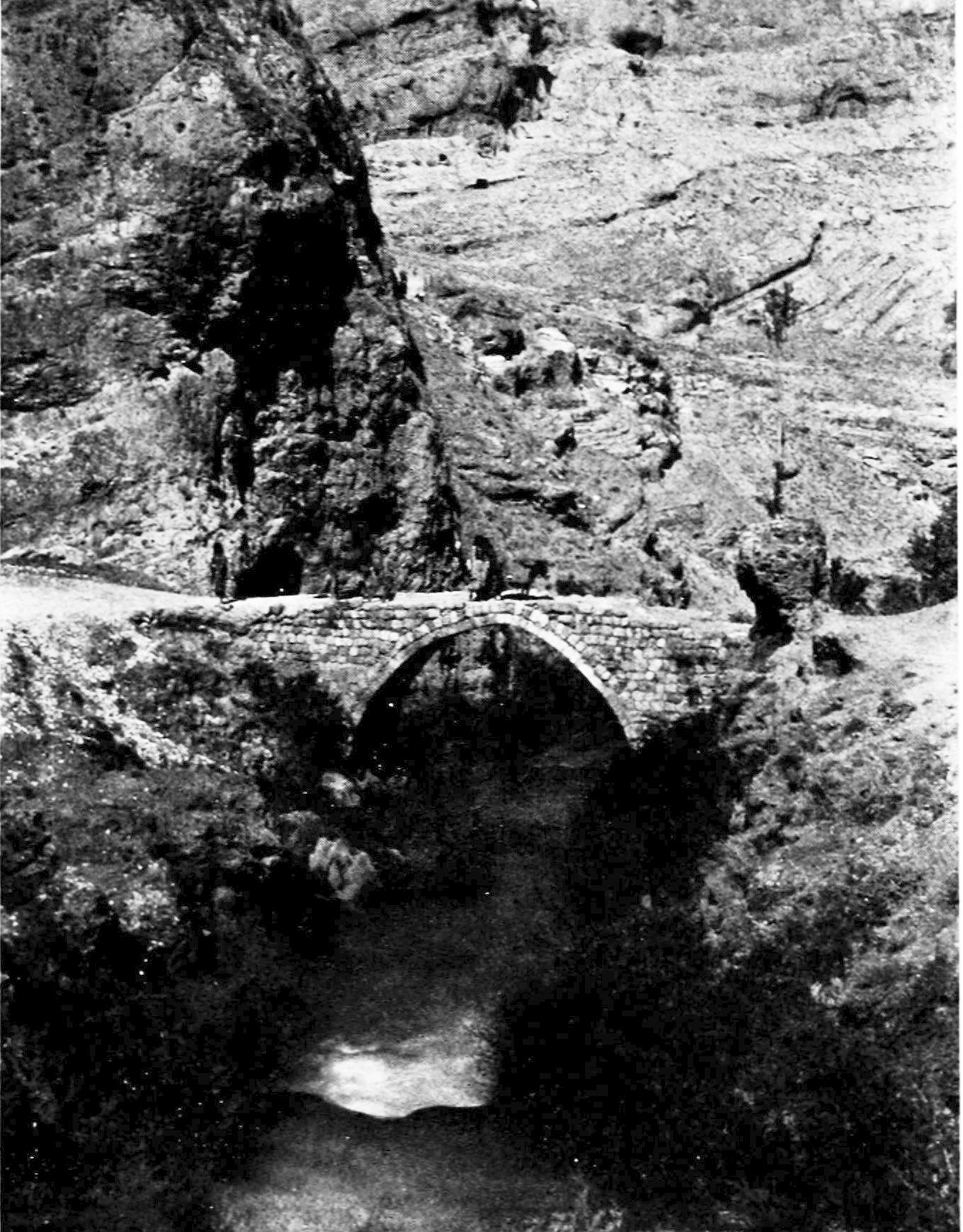 The old bridge over Barada river